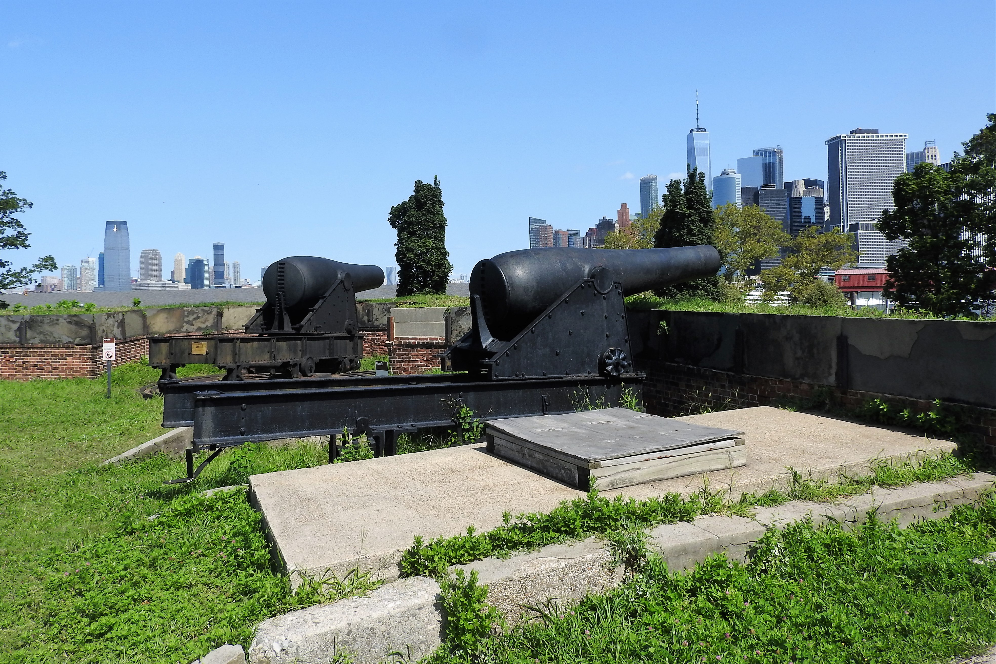 Guns ready to fire on Manhattan (left) and Brooklyn Bridge (right)